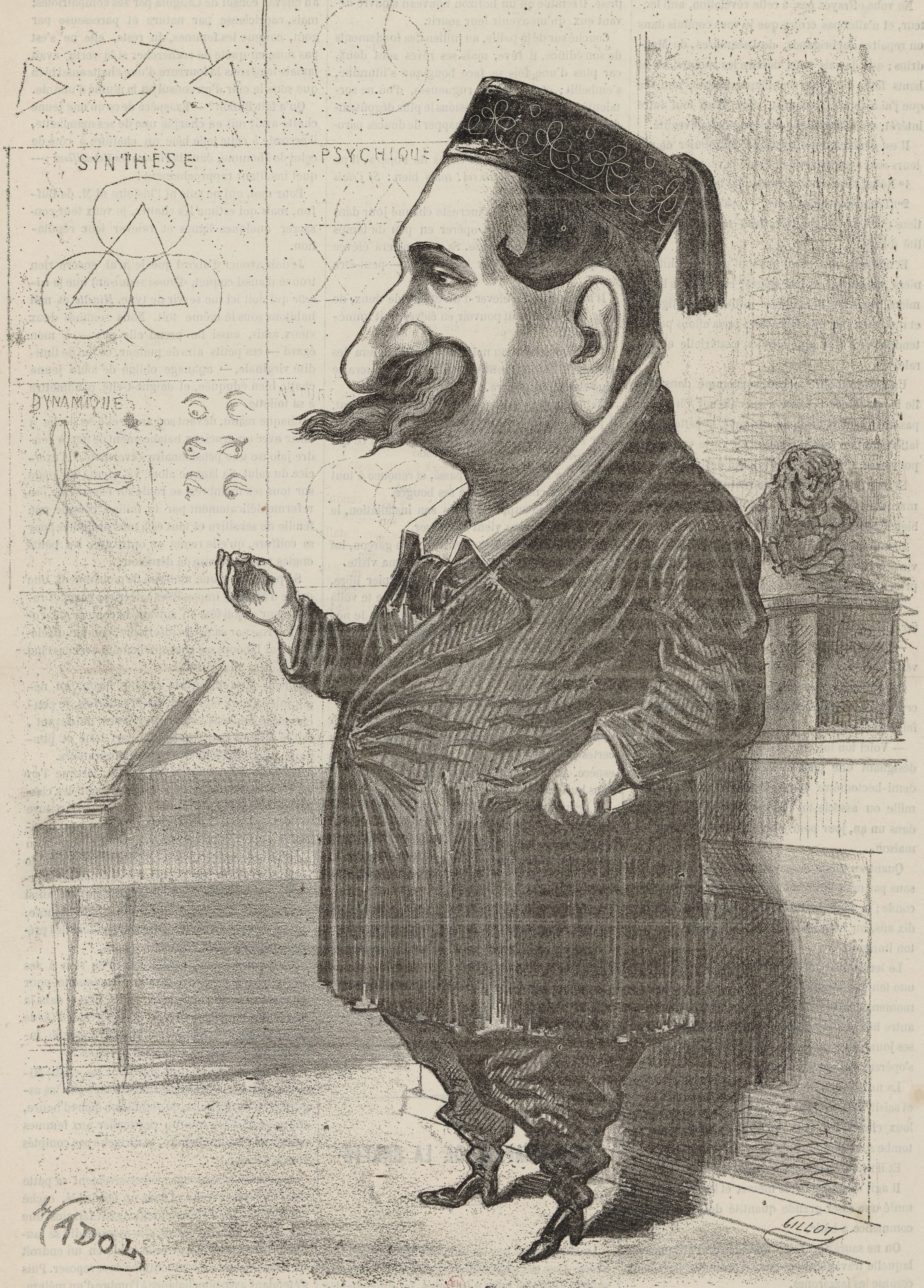 French musician and dance teacher François Delsarte (1811-1871). After a caricature by Paul Hadol (1835-1875) published in L'Album du Gaulois in 1861.